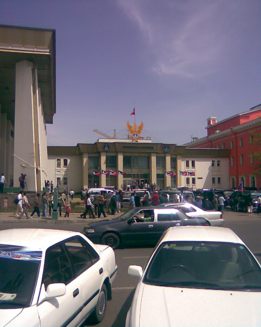 Mongolian Democratic Party HQ after Elbegdorj is declared winner